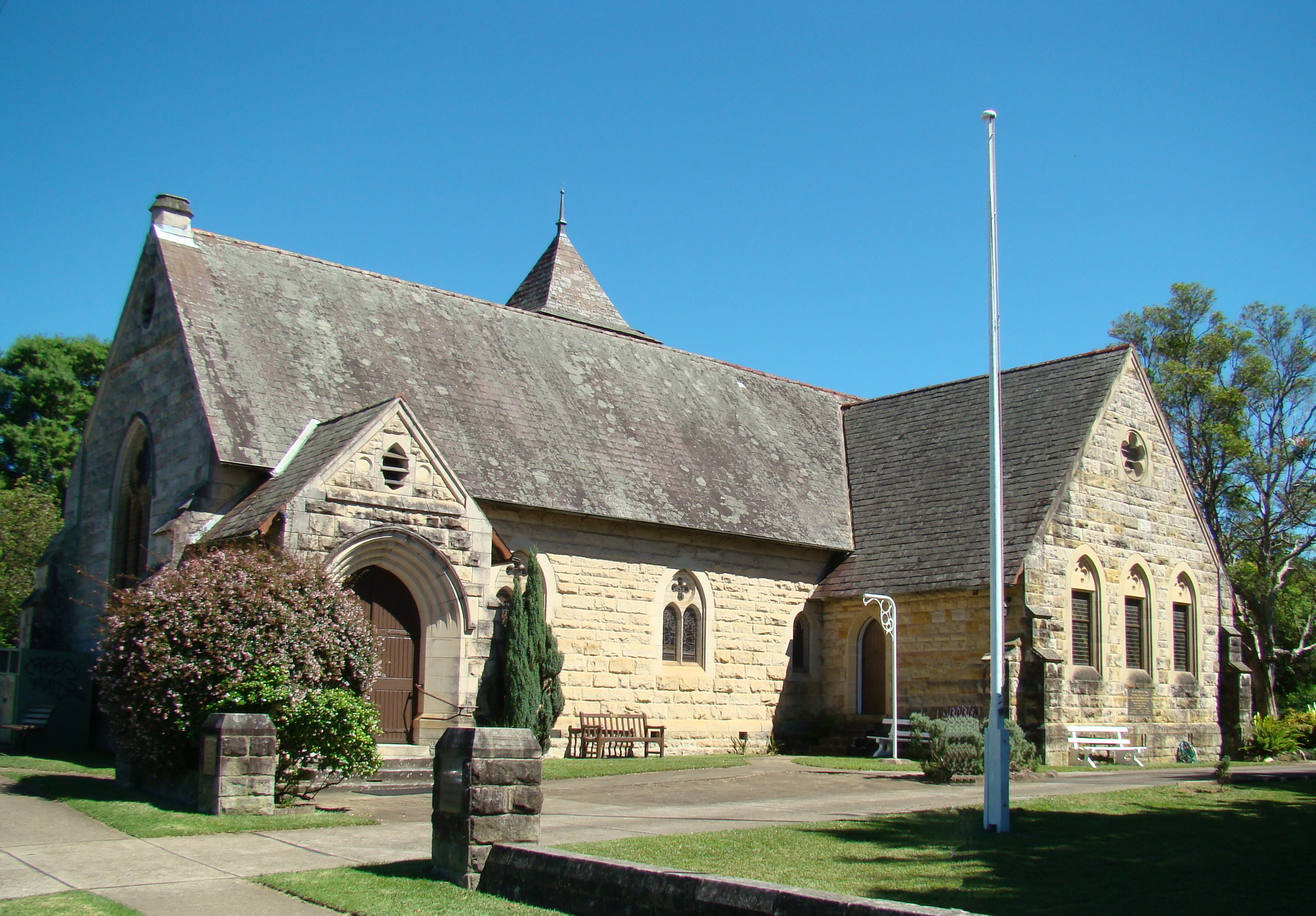 Christ Church Springwood building. Original design by Sir John Sulman, built 1889, extended 1980